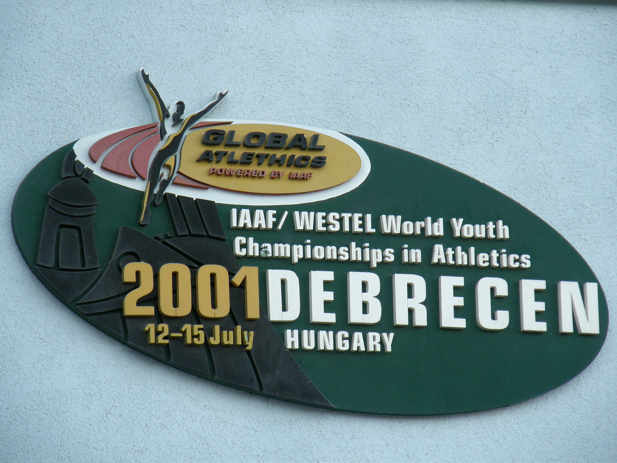 2001 IAAF World Youth Championships